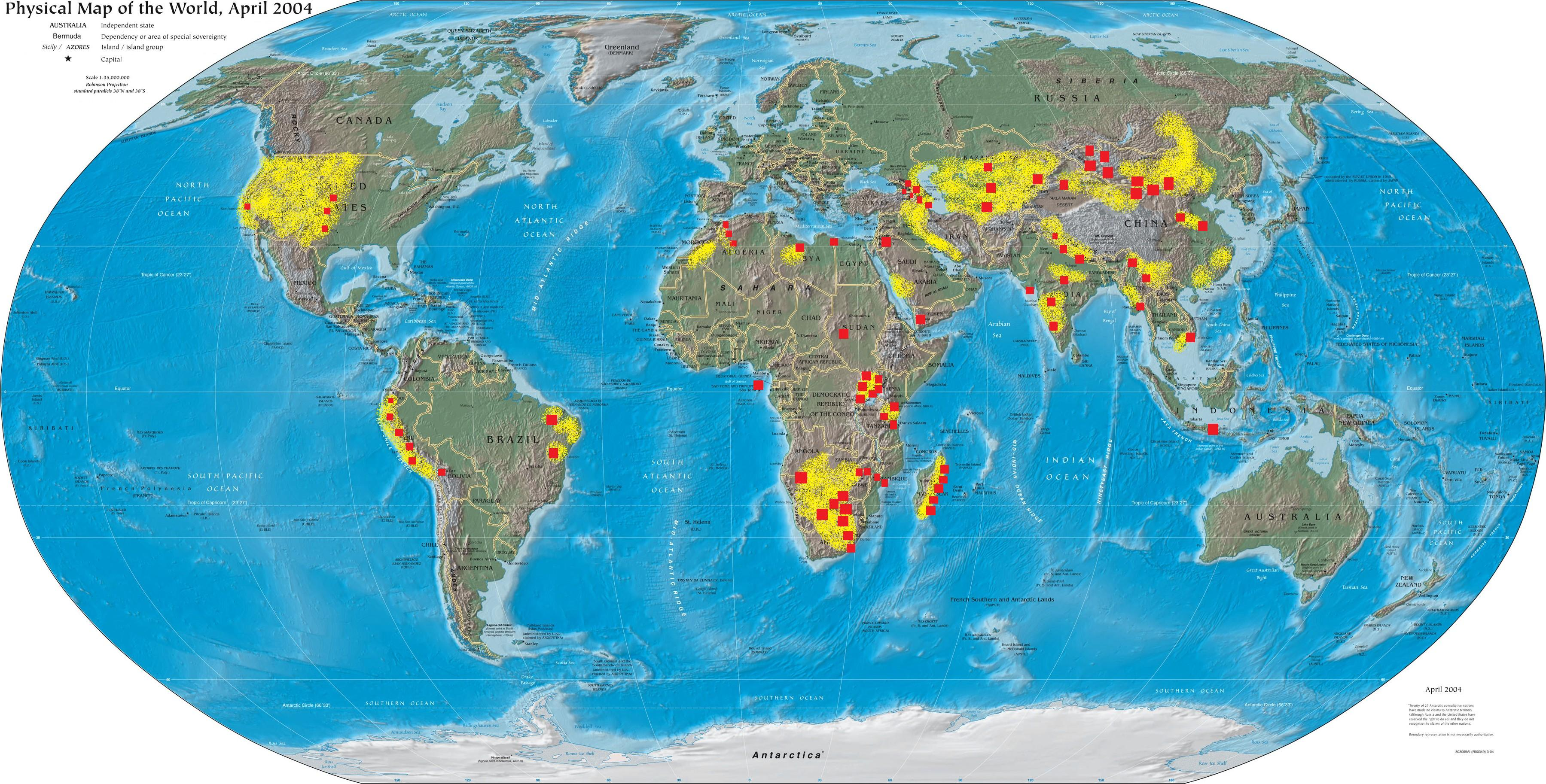 Worl map of plague